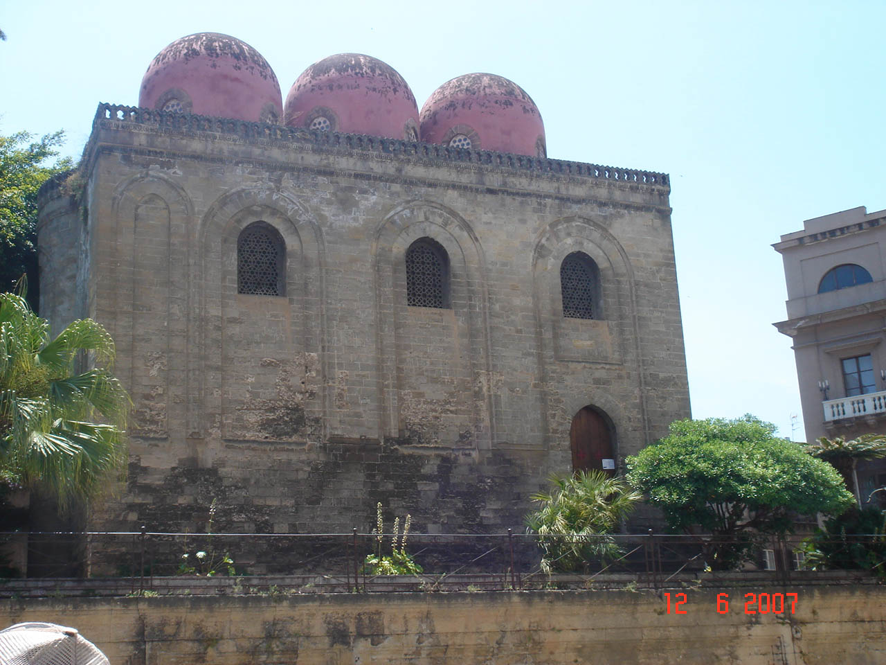 Chiesa di San Cataldo in Palermo, Italy